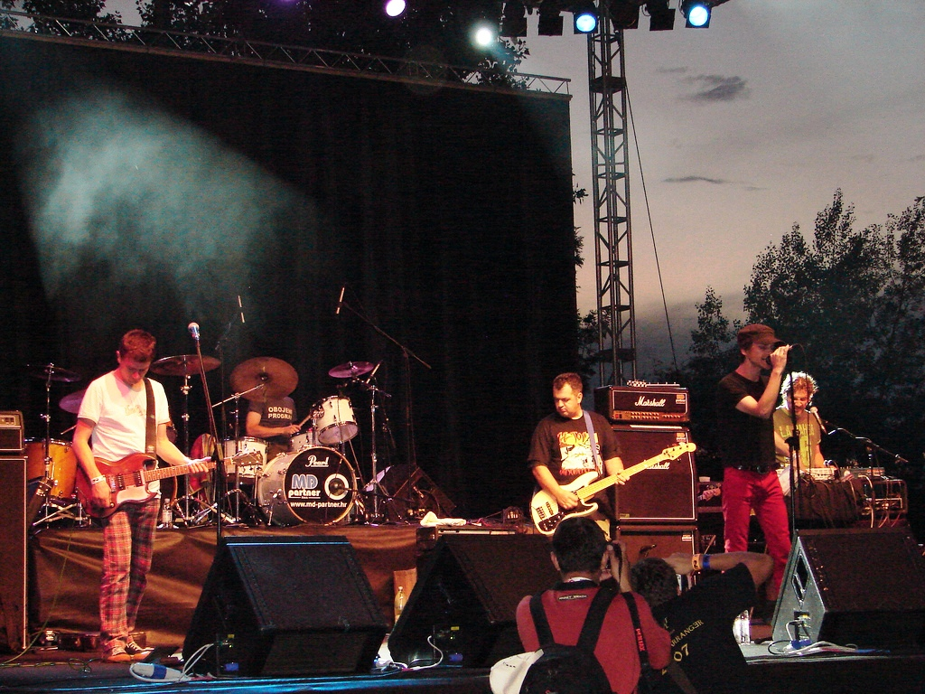 amazing band from Serbia, which i like for more than 10 years already. VIP INmusic festival, Zagreb (Day 1): Roisin Murphy, Obojeni program, Happy Mondays, New York Dolls, Sonic youth & more